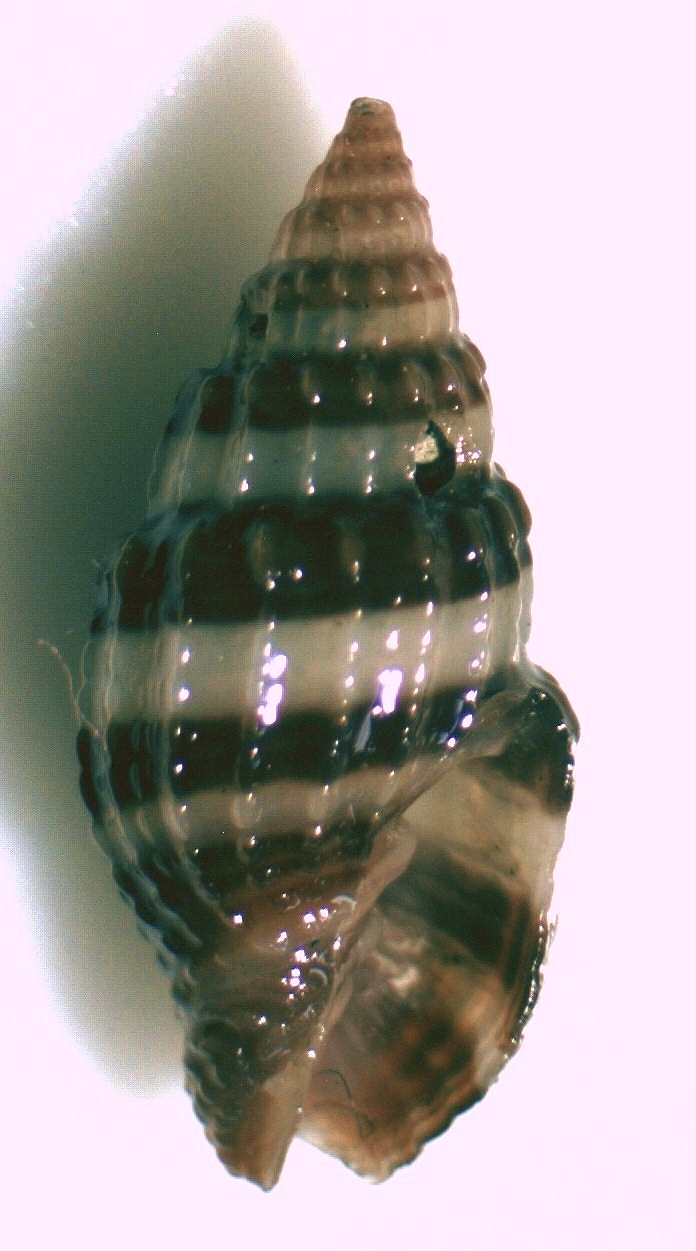 Vexillum (Costellaria) amandum (Reeve, 1845) , a ribbed miter in the family Costellariidae; Philippines